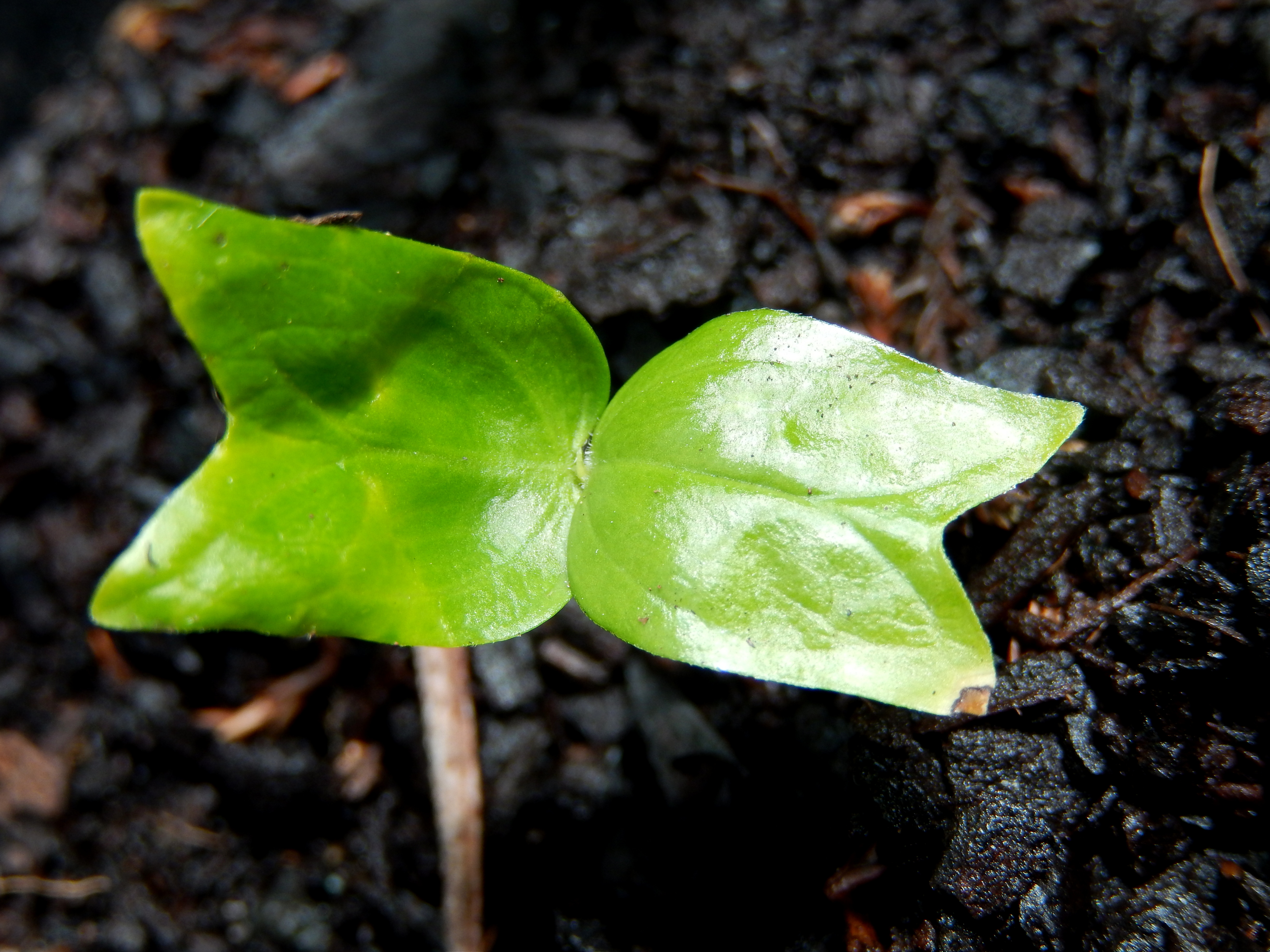 Celtis paniculata seedling. Sydney, Australia